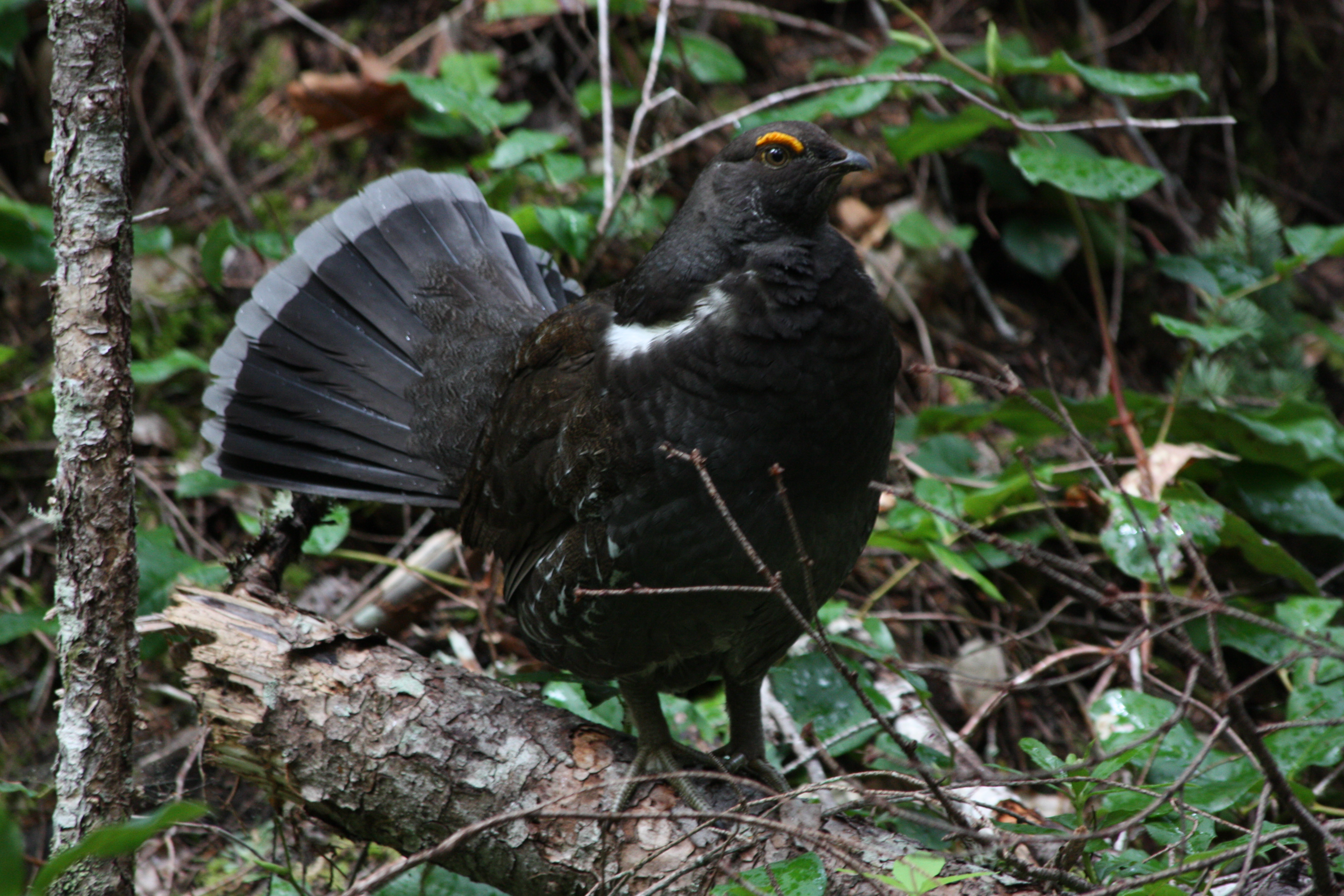 Sooty Grouse male